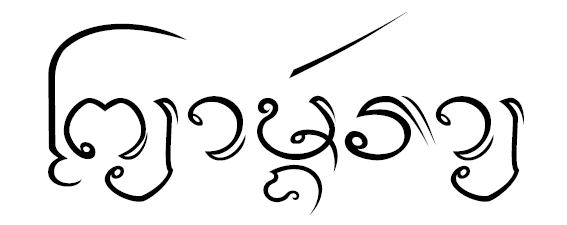 Lanna script – Phaya Mengrai is a district (amphoe) of Chiang Rai Province, northern Thailand.